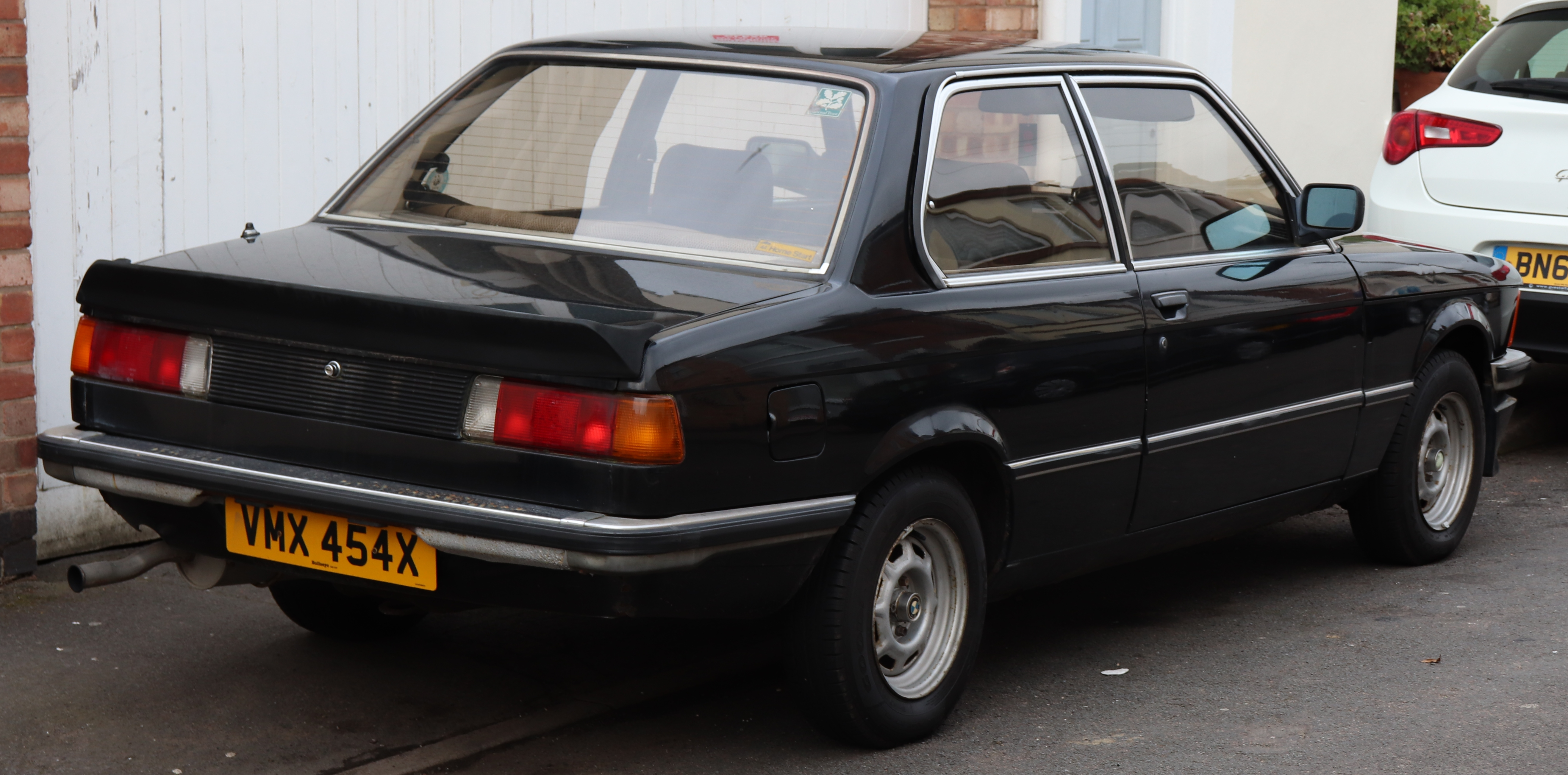 1981 BMW 320 2.0 Rear Taken in Leamington Spa